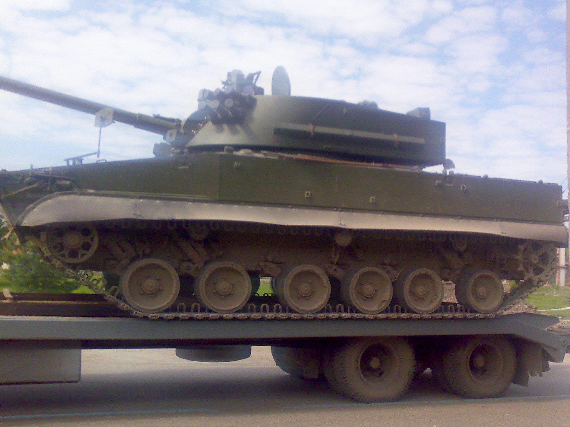 120-mm self-propelled howitzer-mortar 2S31 "Vena"